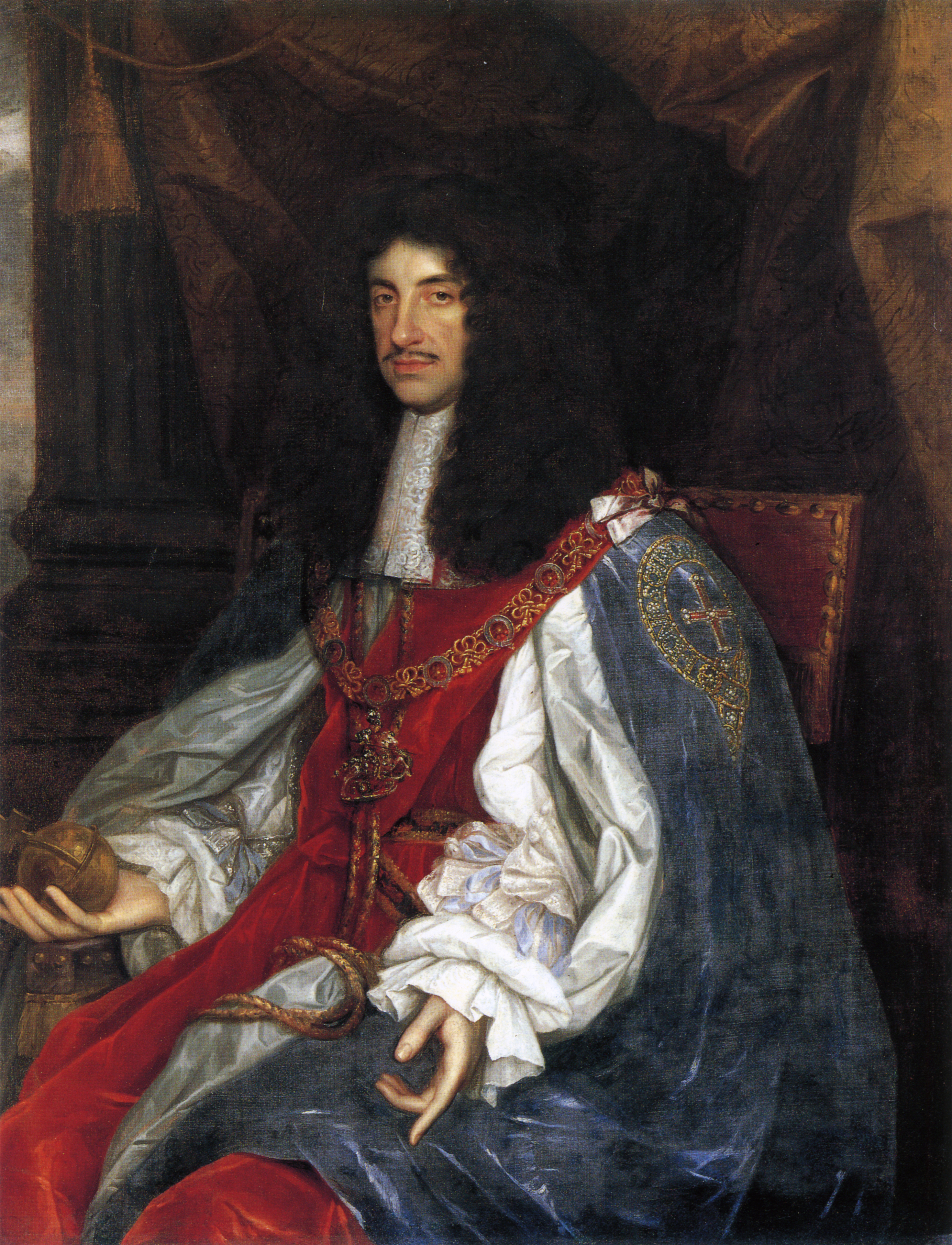 This image is a JPEG version of the original PNG image at File: Charles II in garter robes.png. Generally, this JPEG version should be used when displaying the file from Commons, in order to reduce the file size of thumbnail images. However, any edits to the image should be based on the original PNG version in order to prevent generation loss, and both versions should be updated. Do not make edits based on this version. See here for more information. National Portrait Gallery: NPG 531 While Commons policy accepts the use of this media, one or more third parties have made copyright claims against Wikimedia Commons in relation to the work from which this is sourced or a purely mechanical reproduction thereof. This may be due to recognition of the "sweat of the brow" doctrine, allowing works to be eligible for protection through skill and labour, and not purely by originality as is the case in the United States (where this website is hosted). These claims may or may not be valid in all jurisdictions. As such, use of this image in the jurisdiction of the claimant or other countries may be regarded as copyright infringement. Please see Commons:When to use the PD-Art tag for more information.See User:Dcoetzee/NPG legal threat for original threat and National Portrait Gallery and Wikimedia Foundation copyright dispute for more information. This tag does not indicate the copyright status of the attached work. A normal copyright tag is still required. See Commons:Licensing.